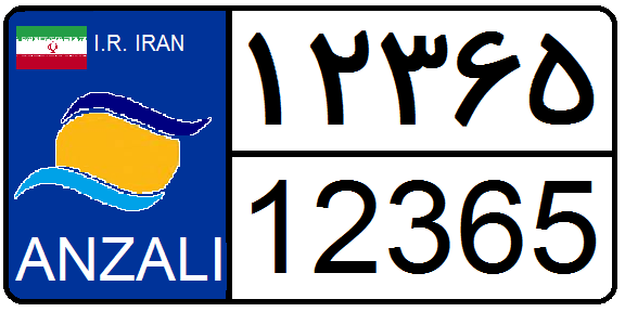 Anzali Free Trade Zone License Plates